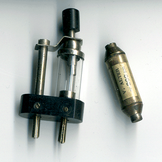 On the left a cat's whisker detector, an antique radio component used in crystal radio receivers beginning in the first decades of the 20th century, until about the 1940s. It consists of a semiconducting mineral crystal, often galena (PbS) in a metal cup (bottom), whose surface is touched by a fine metal wire attached to an adjustable arm (top). It forms a crude semiconductor diode which rectified the radio signal in the receiver, extracting the audio signal from the radio frequency carrier wave. Only certain sites on the crystal surface functioned as rectifying junctions, so it had to be adjusted to find a good contact spot by trial and error before each use. The device was very sensitive to the pressure of the wire contact and was easily disrupted by the slightest vibration. If it gets out of adjustment and stops working, it can be replaced by another cartridge. On the right an old type condensor, used in a crystal radio with capacity 200 cm, measured in cm as was usual in that time.